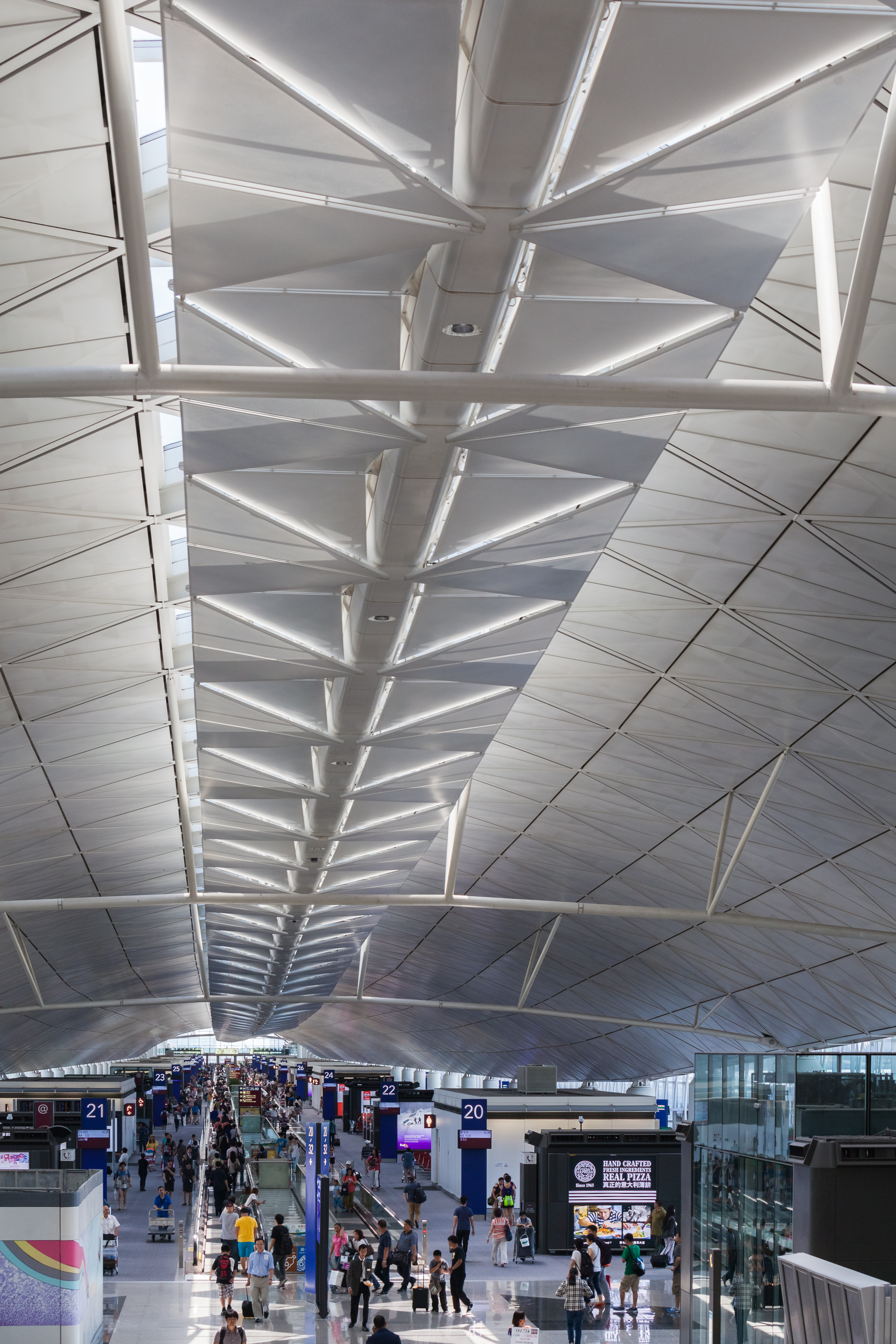 Hong Kong Airport